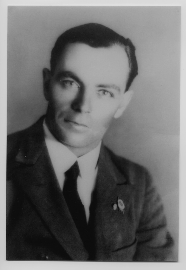 Photograph of Bert Hinkler aged 27 years, approximately taken between December 1919 - 1920.